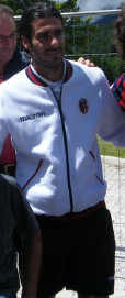 nico pulzetti